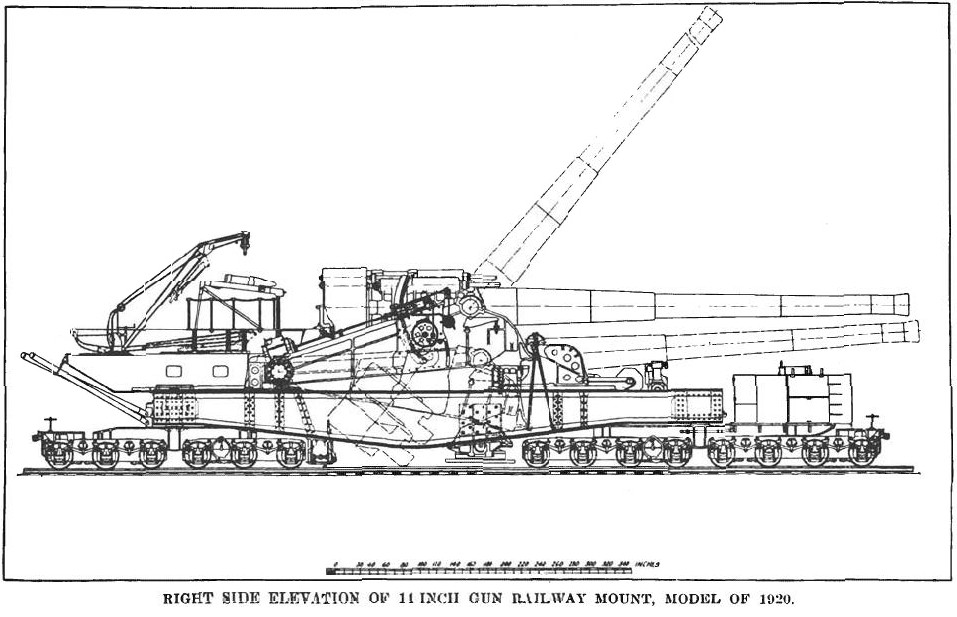 Right elevation diagram of US 14-inch railway gun Model 1920.